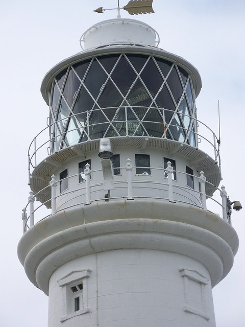 Light Fantastic, Flamborough, East Riding of Yorkshire, England.Flamborough Head's chalk cliffs may crumble, but its 85 ft high lighthouse has defied winds and weather since 1806. Its present beam has a range of 29 miles.